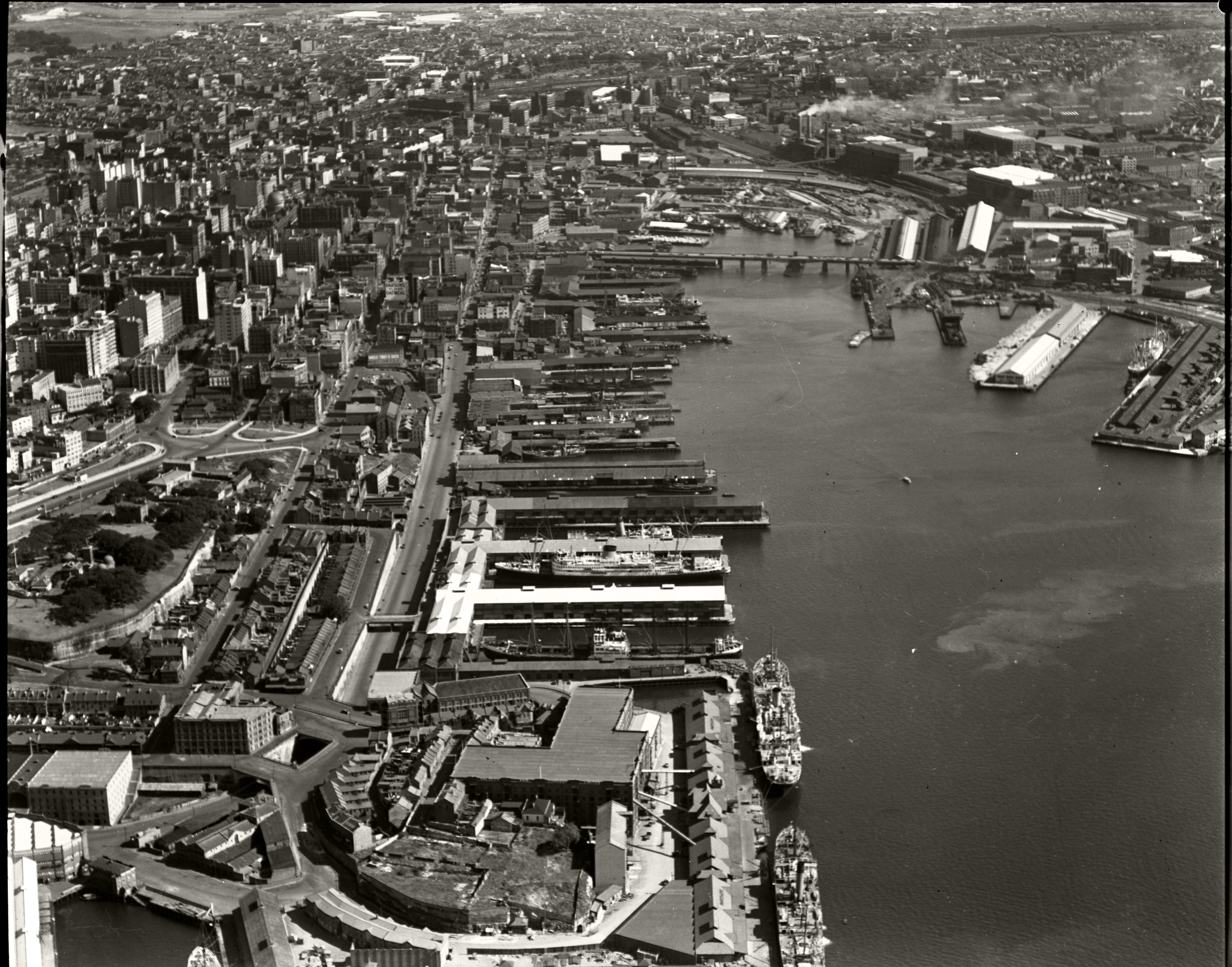 Like the Royal Australian Historical Society on Facebook